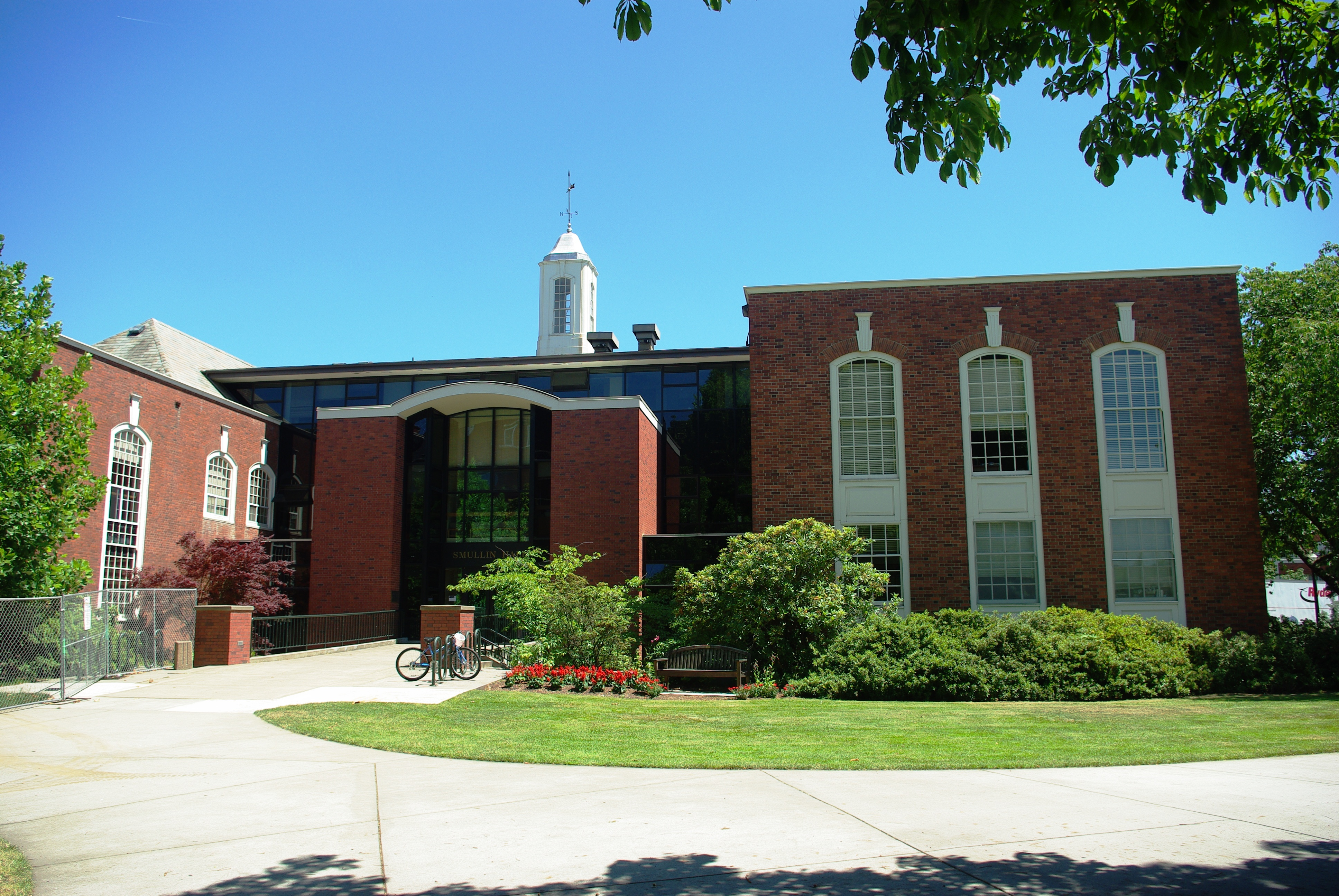 Smullin and Walton halls at Willamette University in Salem, Oregon, USA